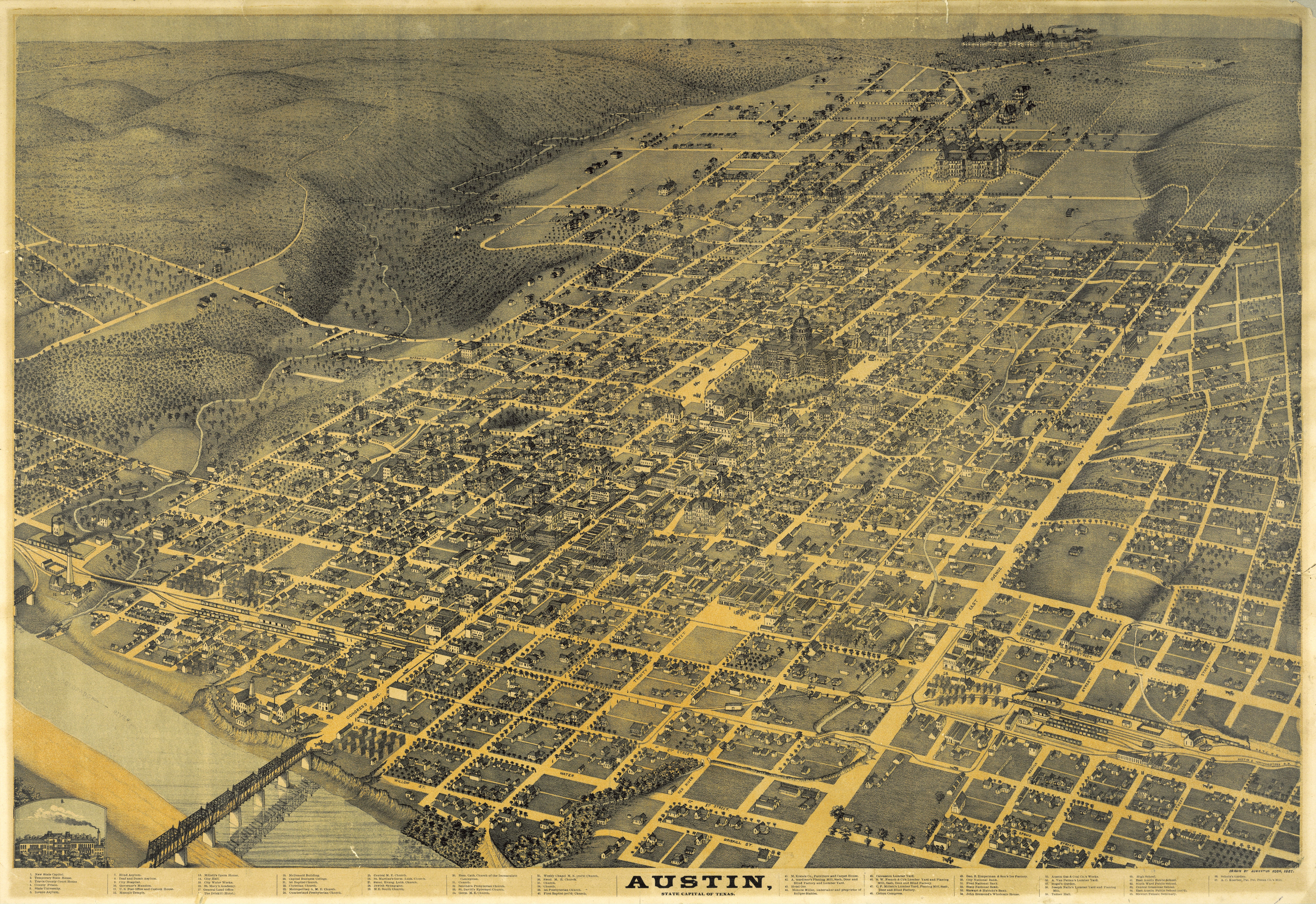 Austin, Texas in 1887. Austin, State Capital of Texas, 1887. Lithograph, 28 x 41 in. Lithographer unknown. Austin History Center, Austin Public Library.